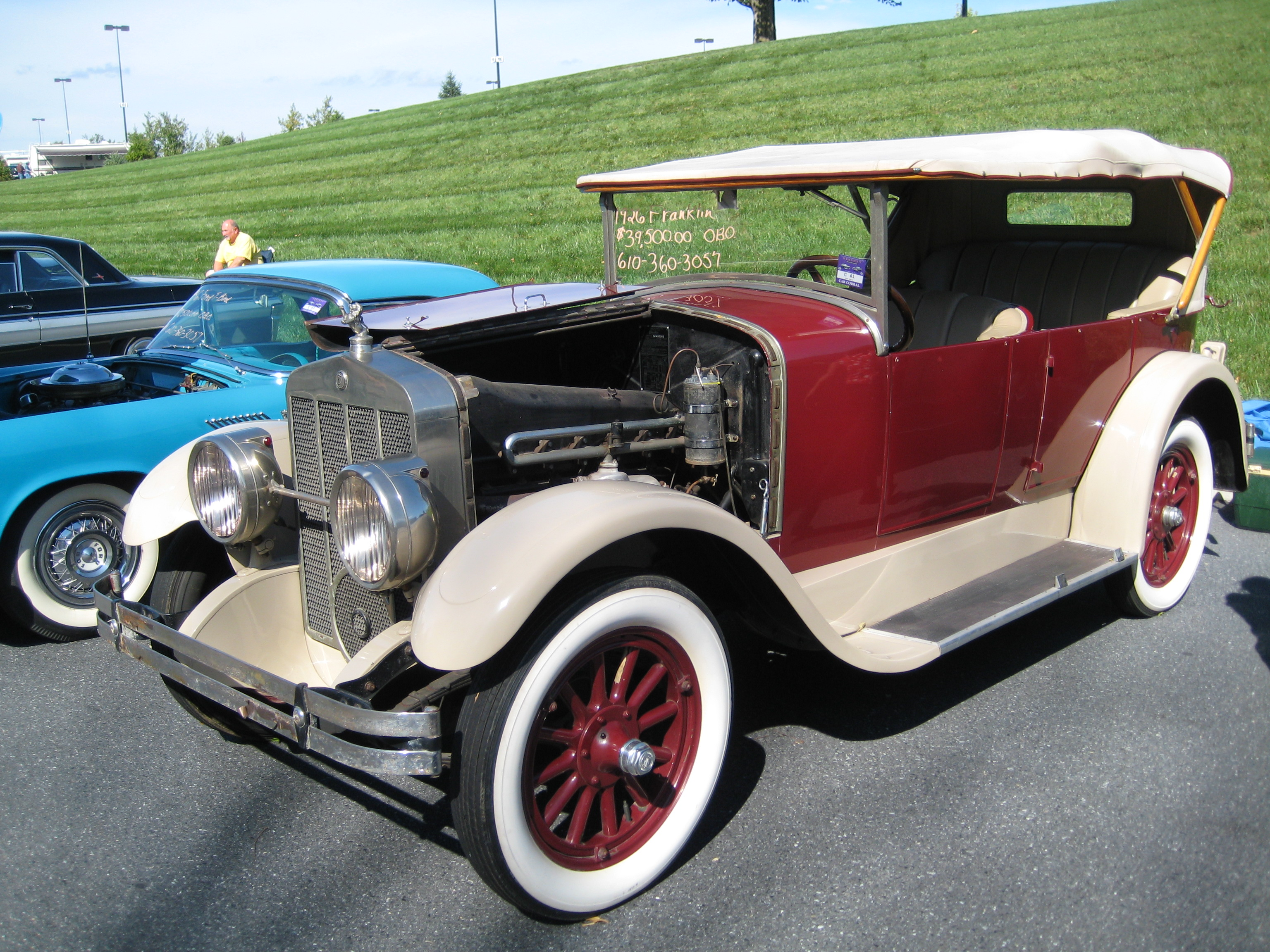 Franklin at the AACA Fall Meet, Hershey, Pennsylvania, October 2009